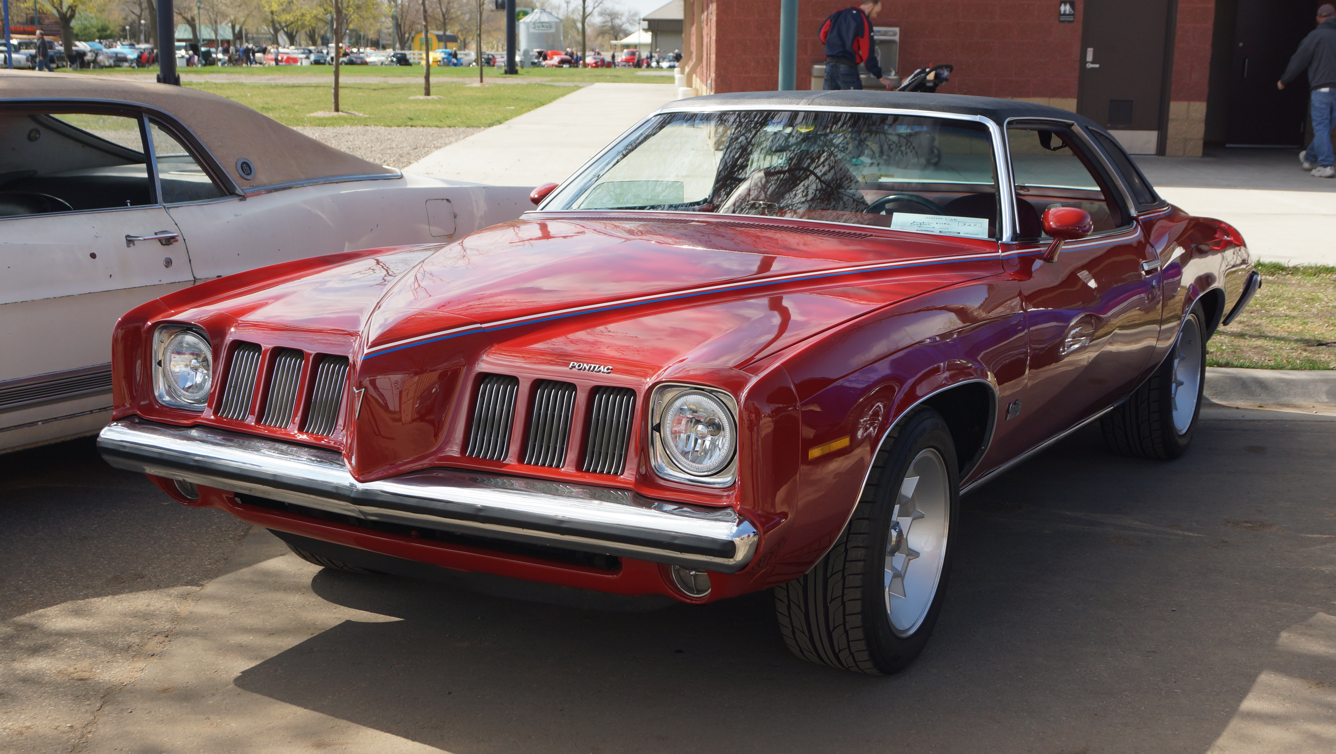 Gopher State Chapter of the Buick Club of America 32nd Annual Spring Extravaganza Car Show & Swap Meet Minnesota State Fairgrounds Falcon Heights, Minnesota May 5, 2019 Click here for more car pictures by make. Click here for Car Event pictures by year. Or here for my Car Crazy Tumblr site.